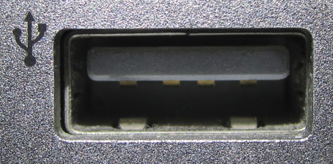 USB Connector